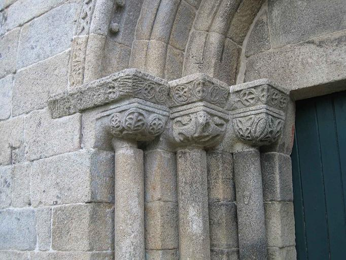 Romanic church of Boelhe - Penafiel - Portugal